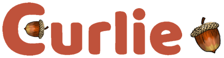 Logo of Curlie, former DMOZ